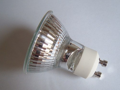 Bulb socket GU10; 230V, 400 cd / 40°, 2000h.